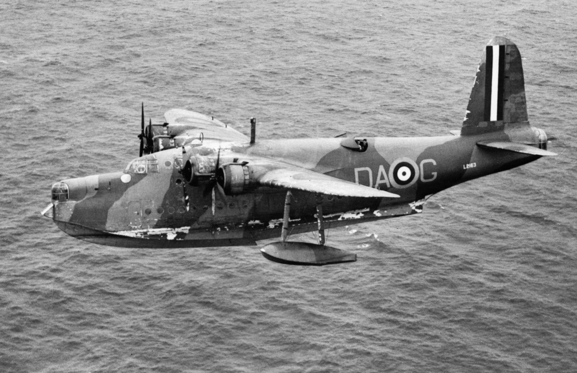 A Royal Air Force Short Sunderland Mk.I of 210 Squadron (L2163, DA-G), which flew the Sunderland from June 1938 to mid-1940. ‘DA-G’, of No. 210 Squadron RAF based at Oban, Argyll, is here banking over the Atlantic while escorting Canadian Troop Convoy 6 (TC.6), inbound for Greenock.